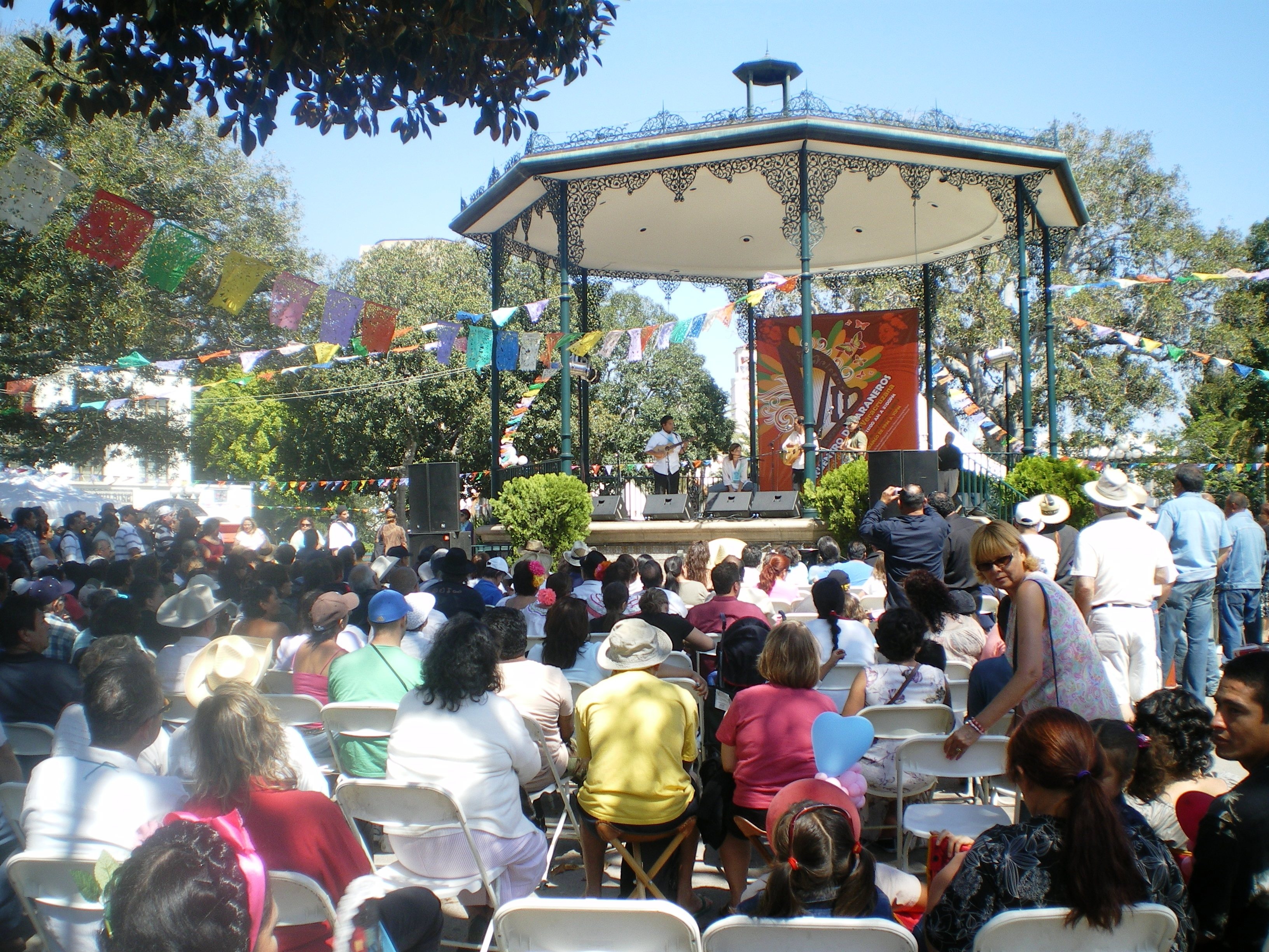 Musicians performing in the Old Plaza, Los Angeles, California